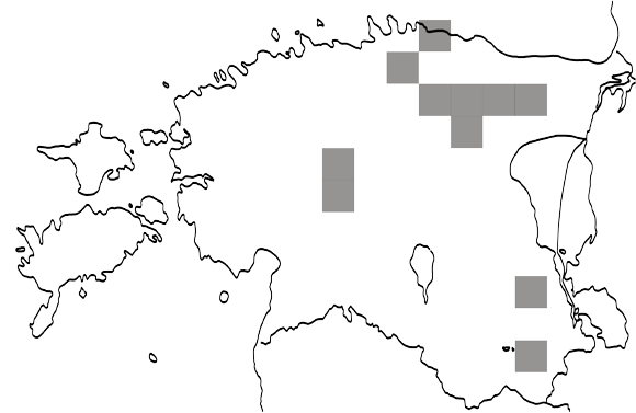 Collema nigrescens. Distribution in Estonia 2011.